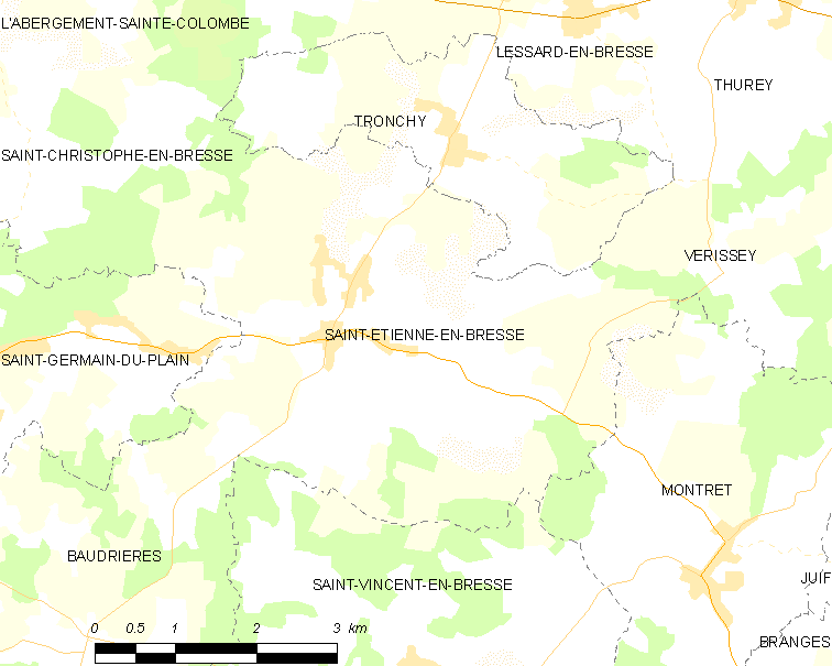 Map of French municipality